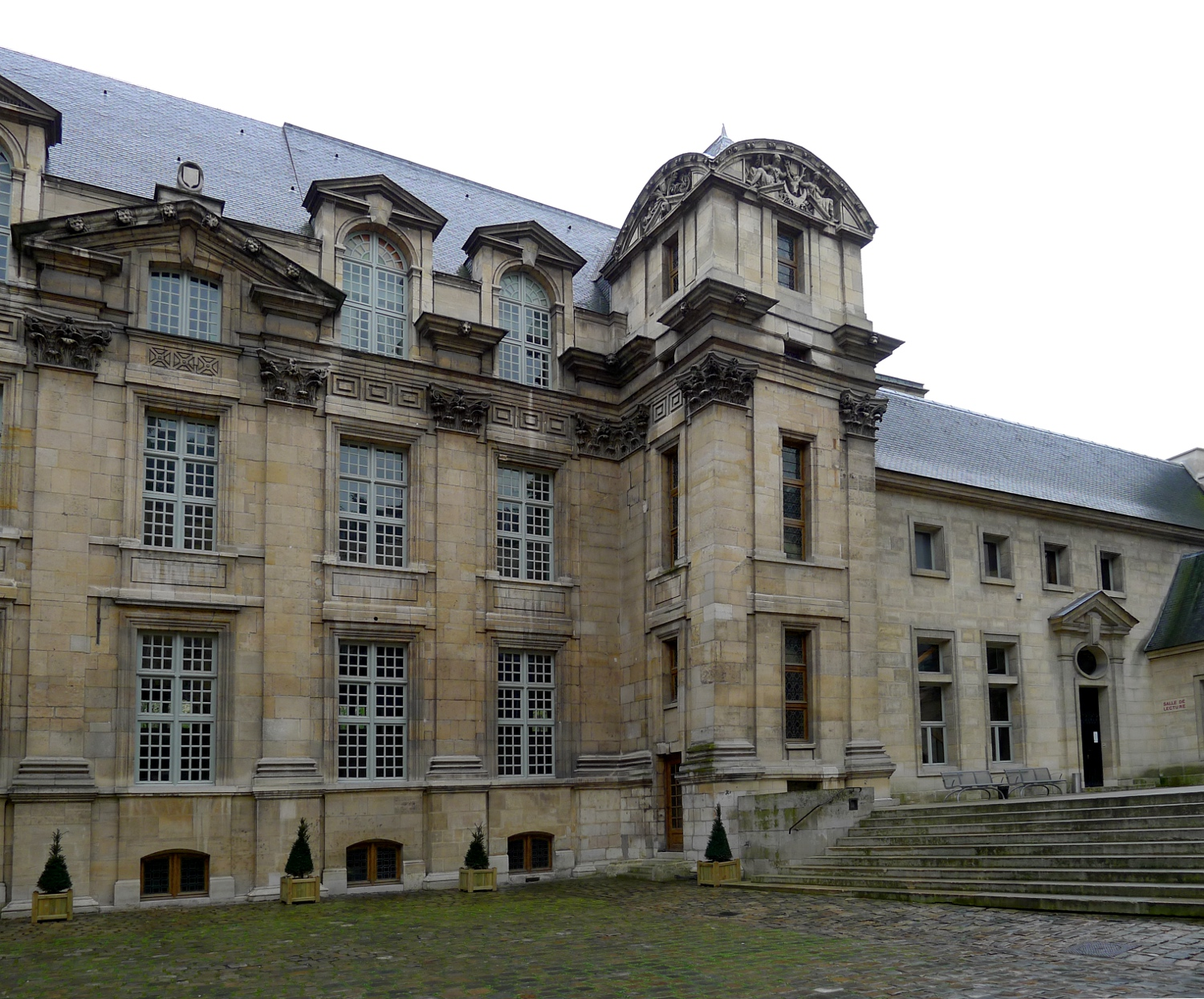 Angoulème Lamoignon hôtel - Paris